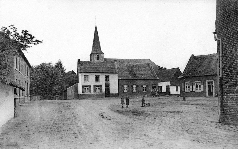 Postcard of the village square of Budingen (Belgium)